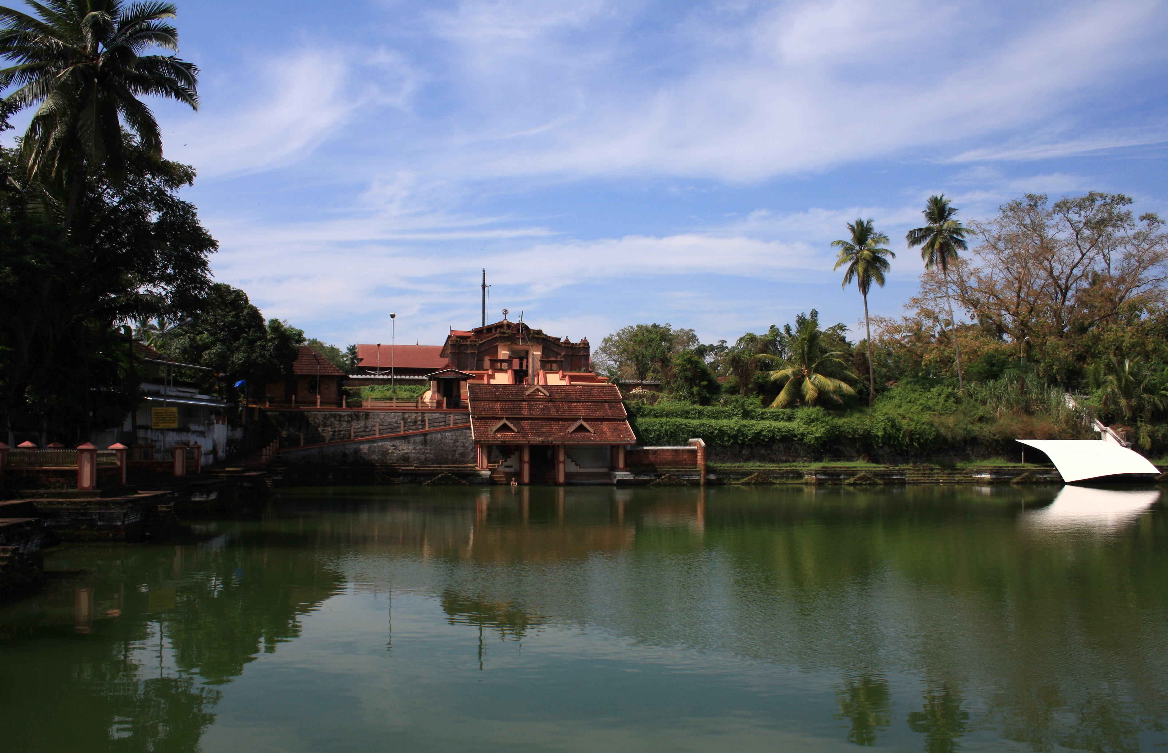 Front view of Thiruvangad temple, Thalassery, Kerala